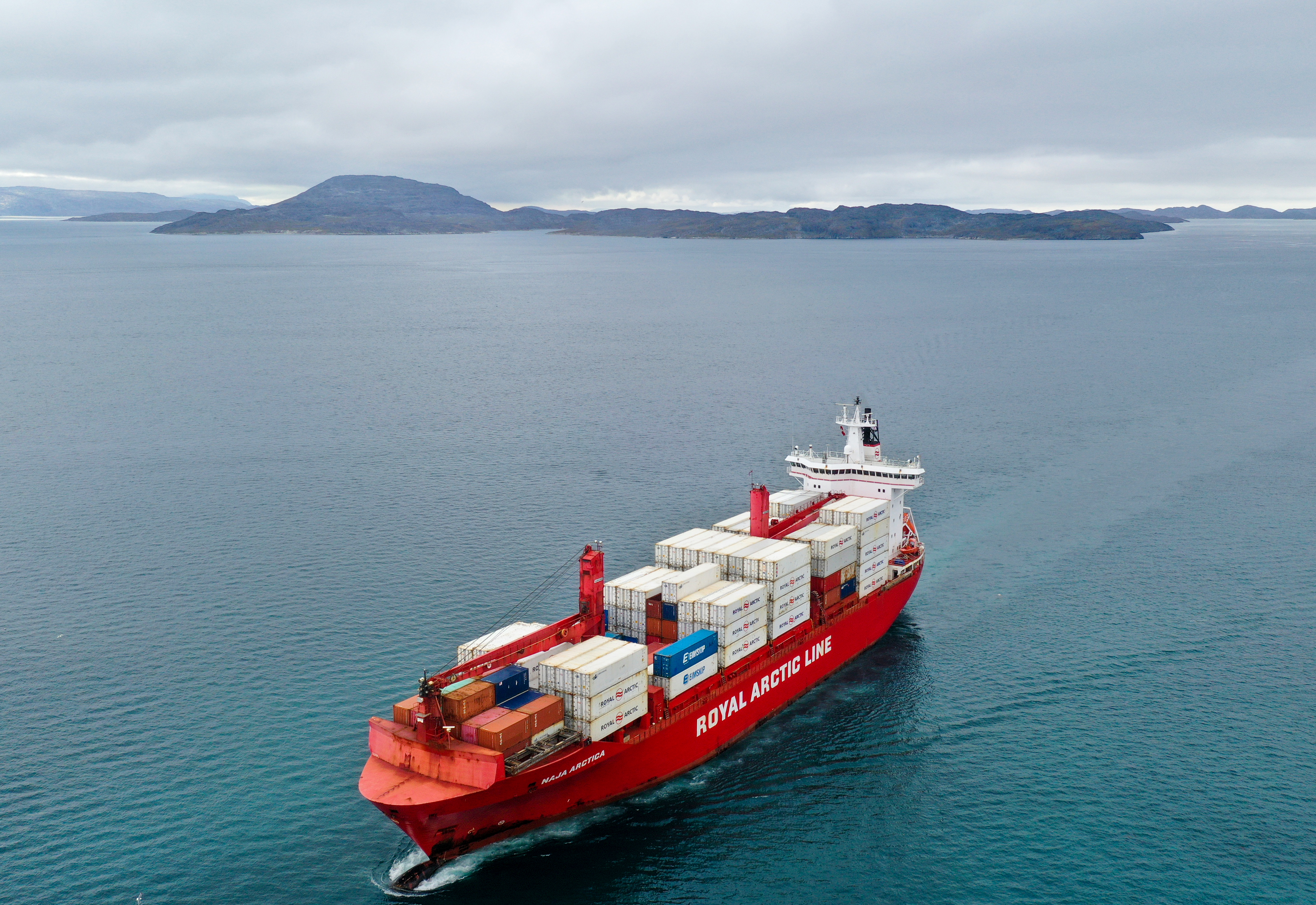 Vessel Naja Arctica near Nuuk, Greenland.